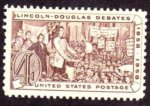 US Postage stamp, 1959 issue, commemorating Lincoln - Douglas debates